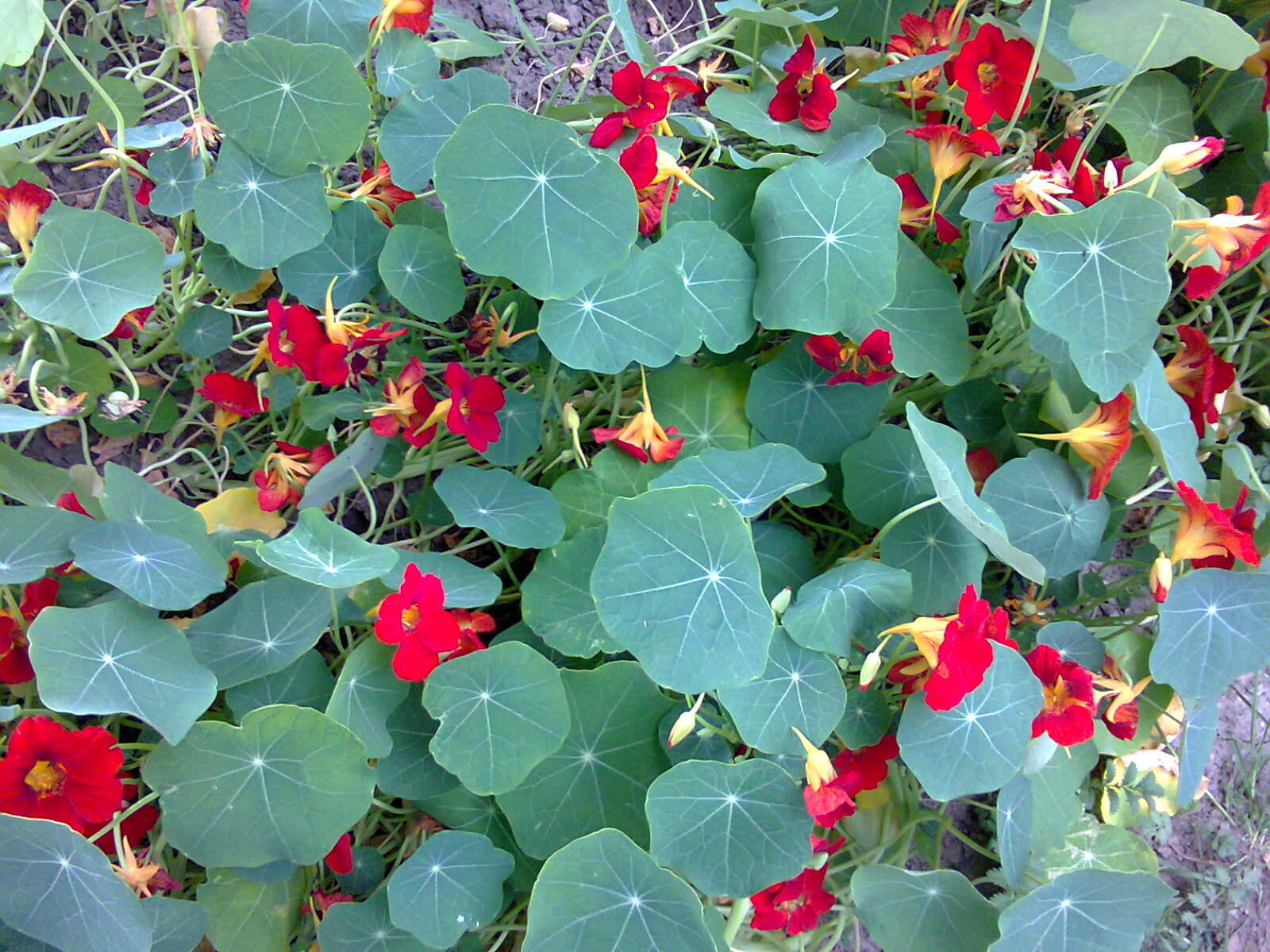 Garden Nasturtium, Indian Cress or Monks Cress (Tropaeolum majus) in my garden, in Lónyaytelep, Transylvania.